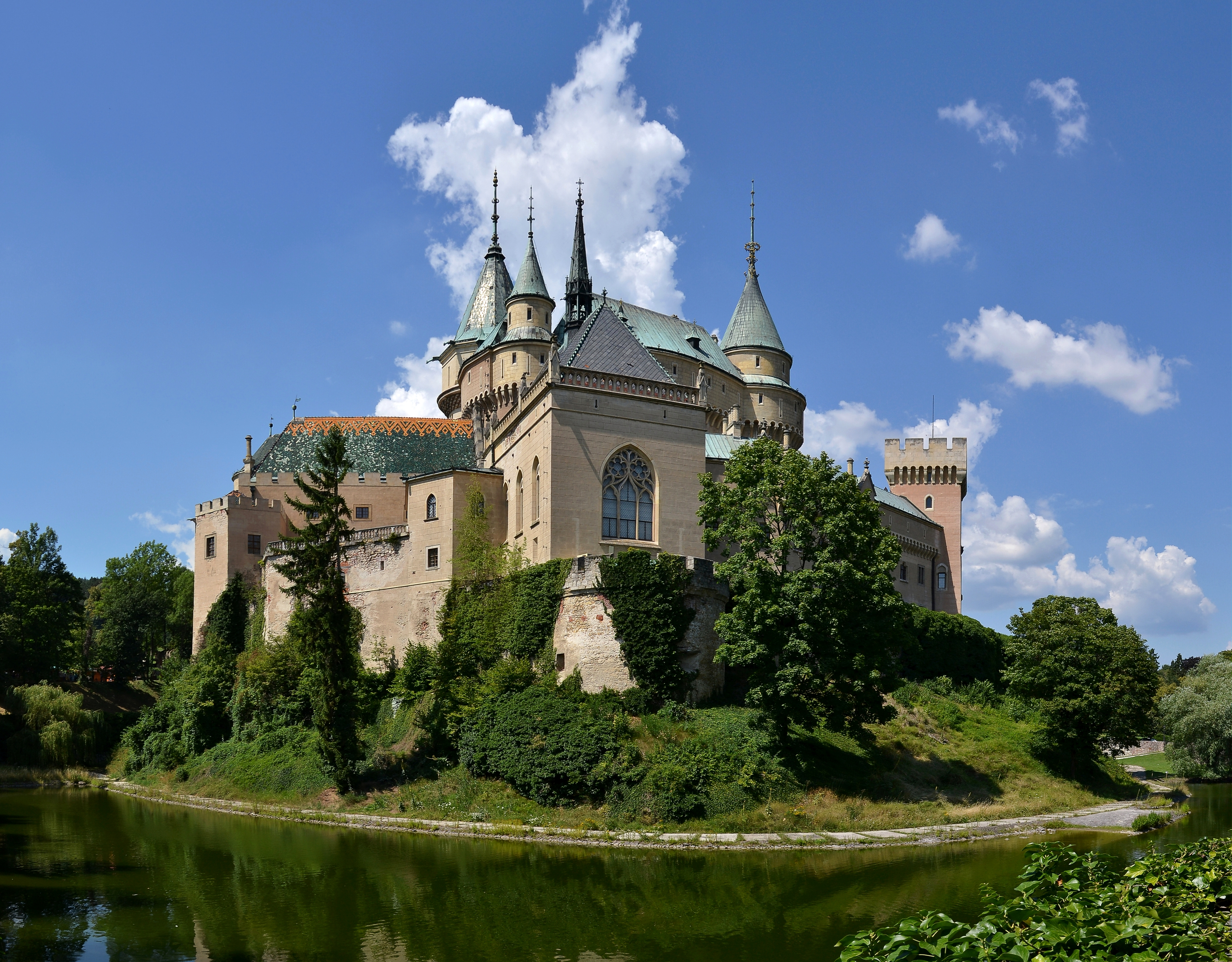 Bojnice Castle, SlovakiaEsperanto: Kastelo Bojnice